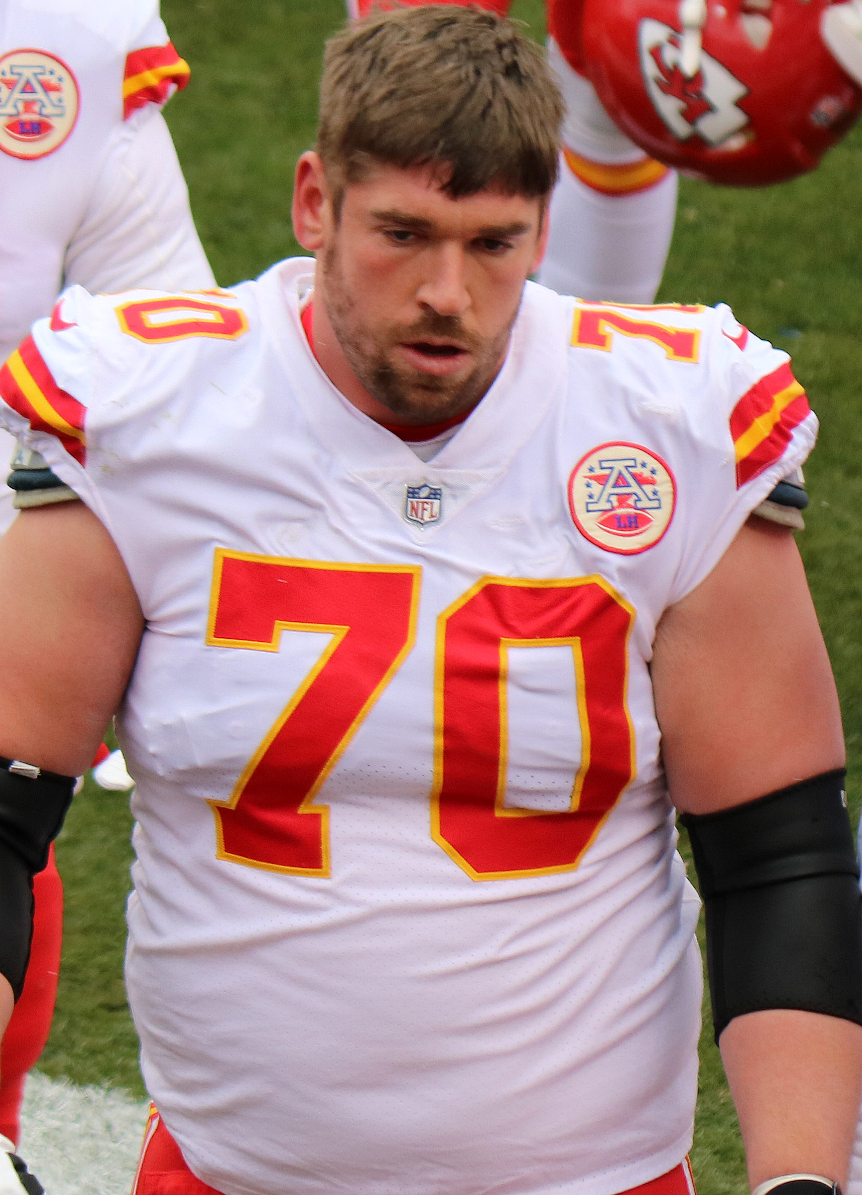 Bryan Witzmann, a player on the National Football League.